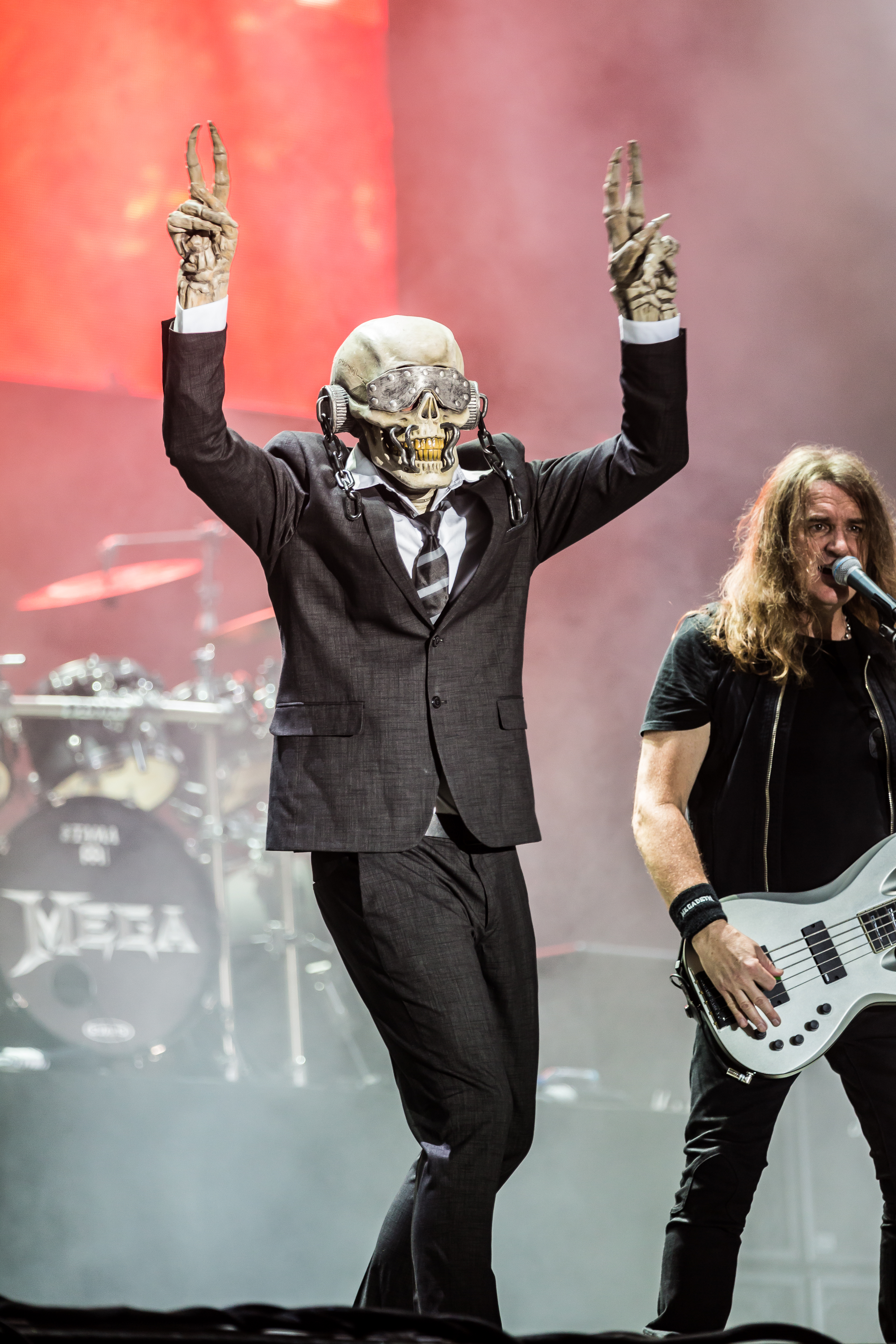 The American thrash metal band Megadeth at the Summer Breeze Open Air 2017 in Dinkelsbühl/Germany.